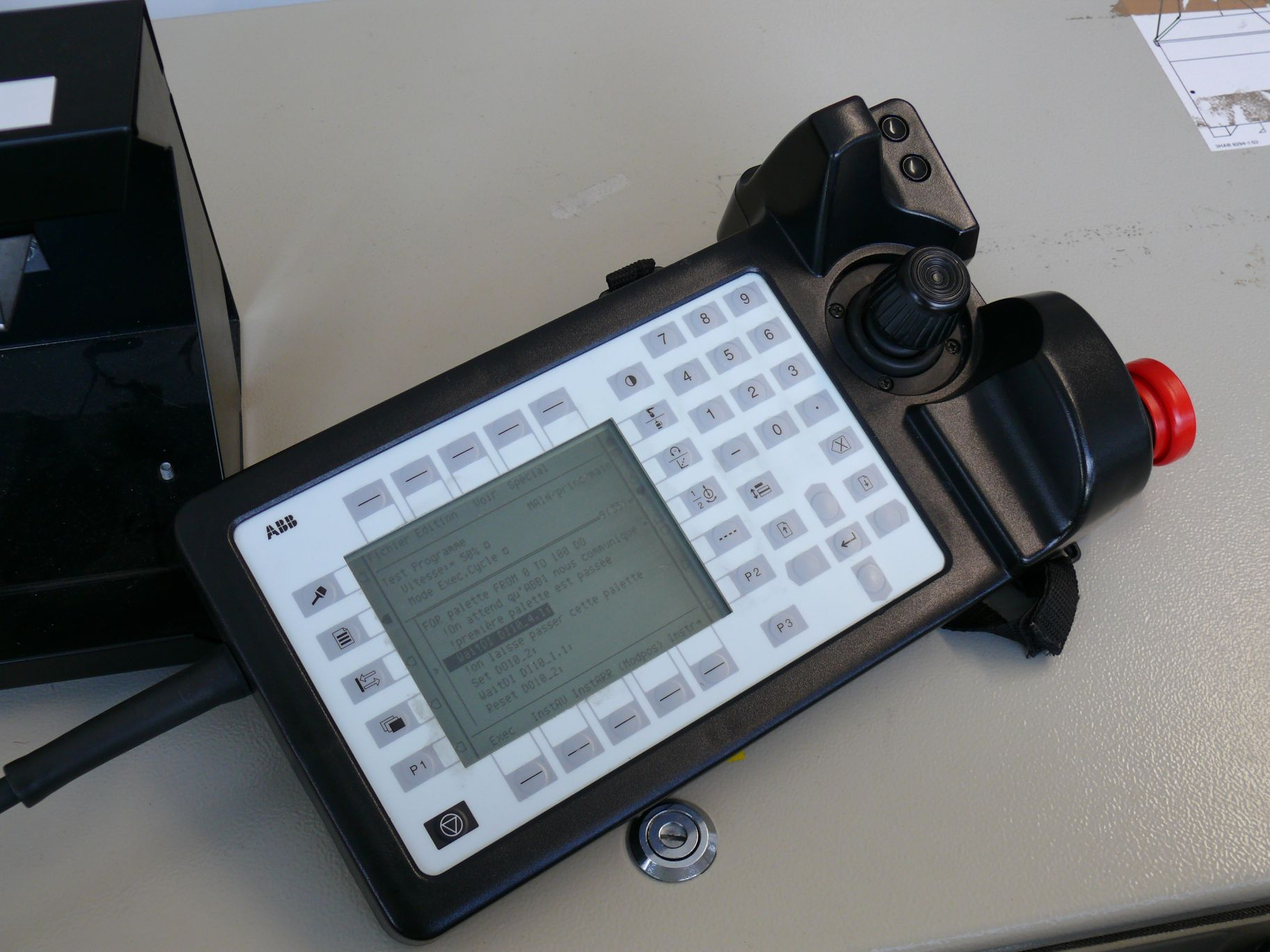 ABB industrial robot in Villeneuve-d'Ascq (Nord-Pas-de-Calais, France).